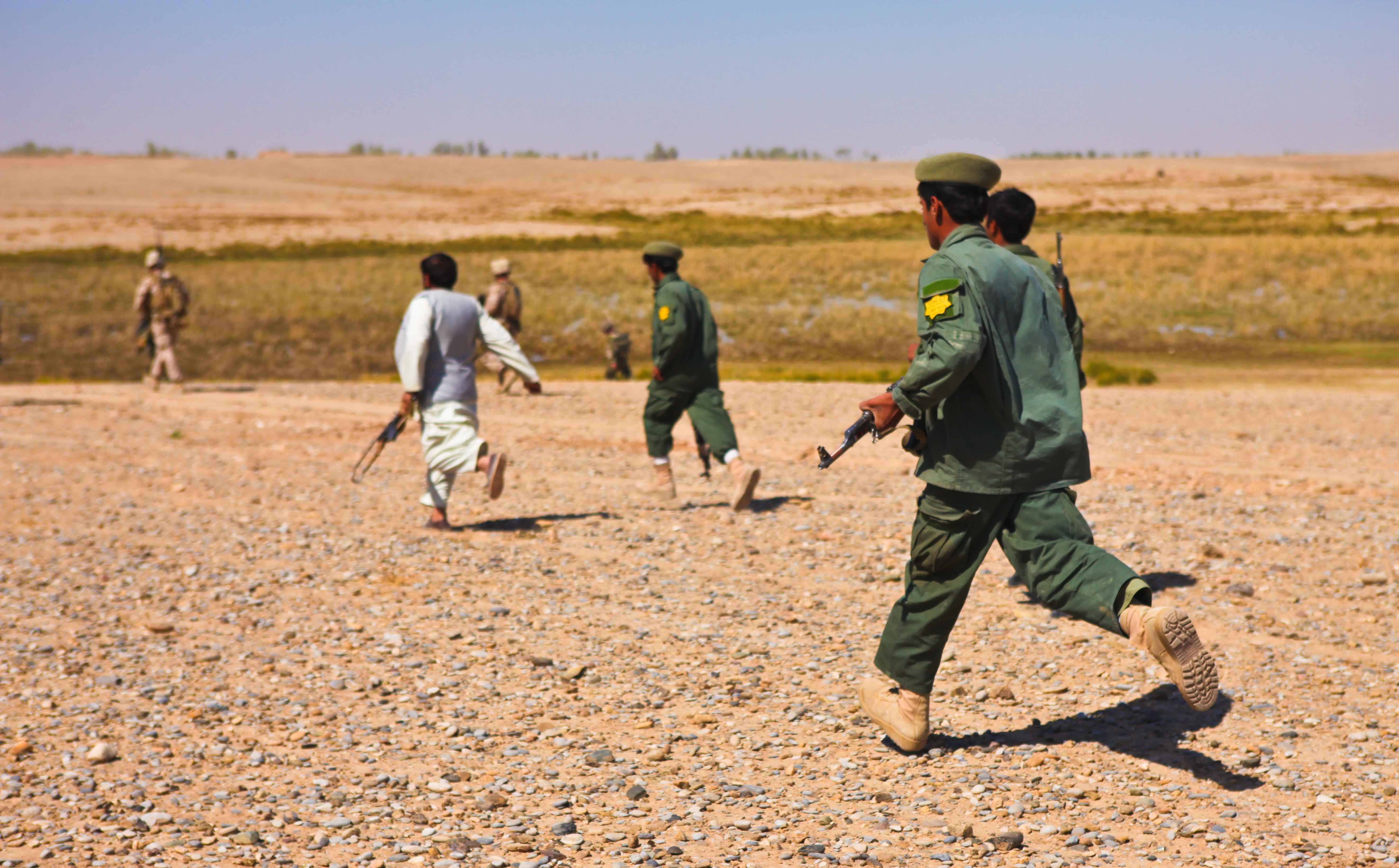 Haji Hayatullah (dressed in white and gray), an Afghan Local Police commander leads ALP patrolmen toward gunfire in the desert surrounding Nawa. During a patrol through the district, Afghan National Army soldiers and Marines with 1st Battalion, 9th Marine Regiment, heard an improvised explosive device detonate followed by machine-gun fire. The group detoured from their route into the desert to determine the cause and lend aid if necessary.